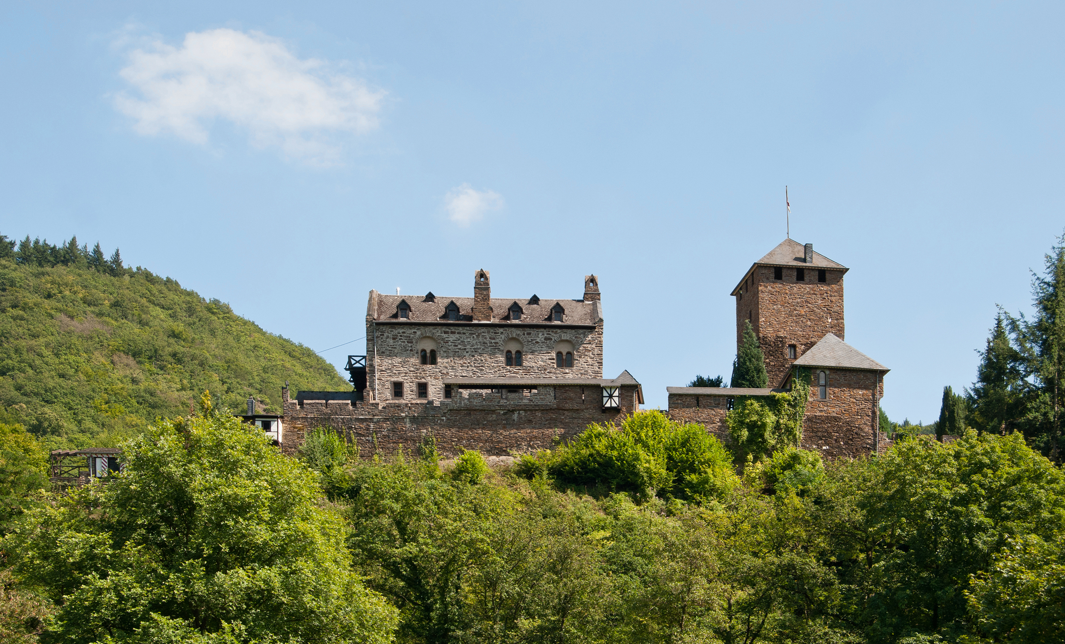 Treis-Karden (Rhineland-Palatinate, Germany) – district Treis – castle Wildburg – western aspect This is a photograph of an architectural monument.It is on the list of cultural monuments of Treis-Karden This photograph was taken with a Nikon D3000